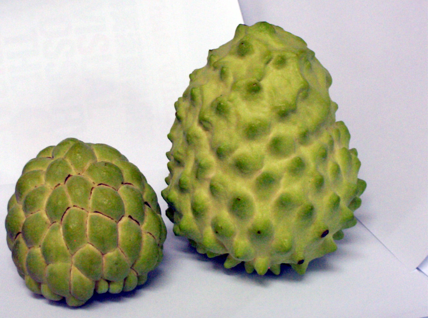 Sugar-apple and atemoya.